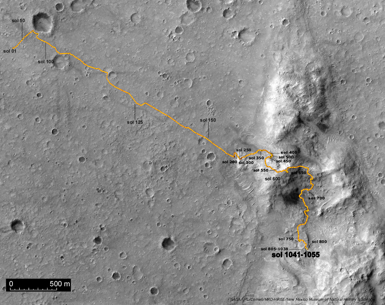 Current Spirit traverse map. [1]